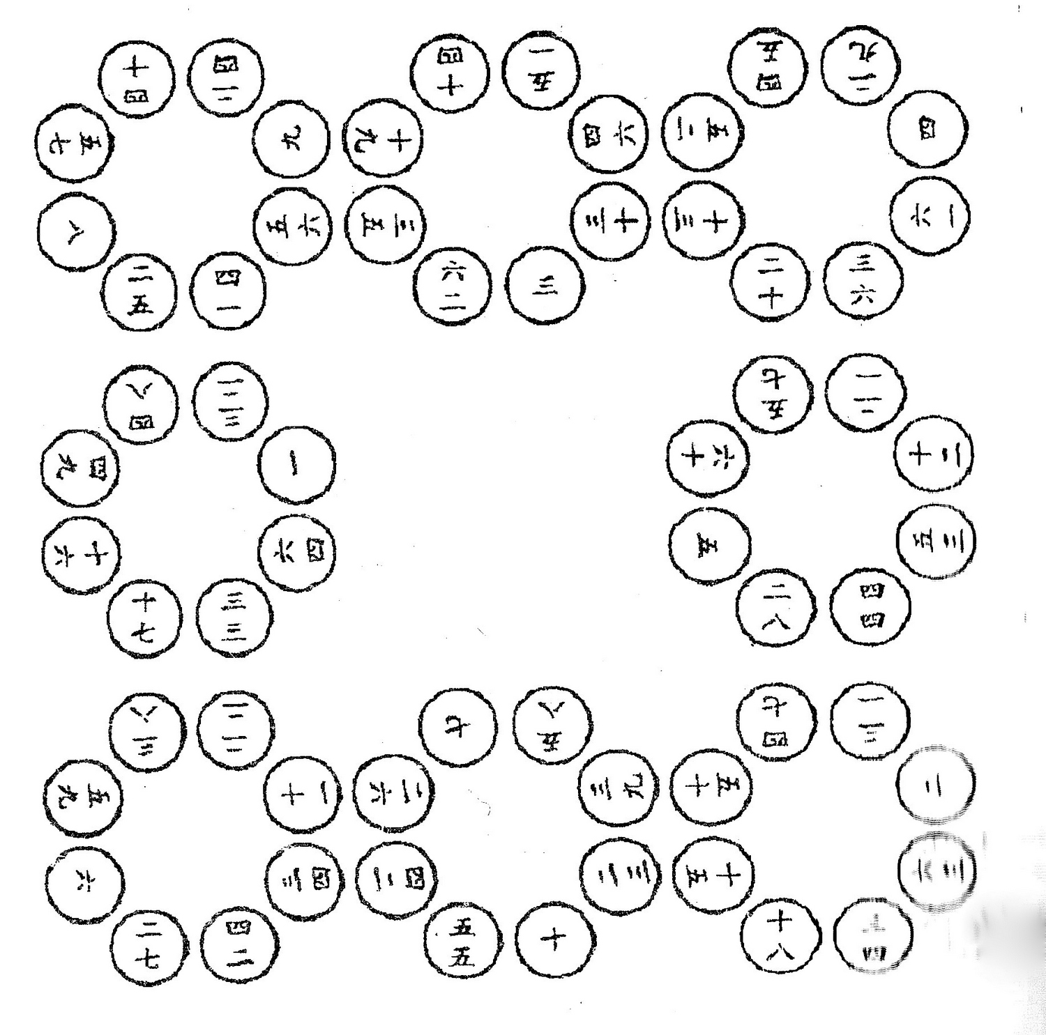 YangHui magic circle 1